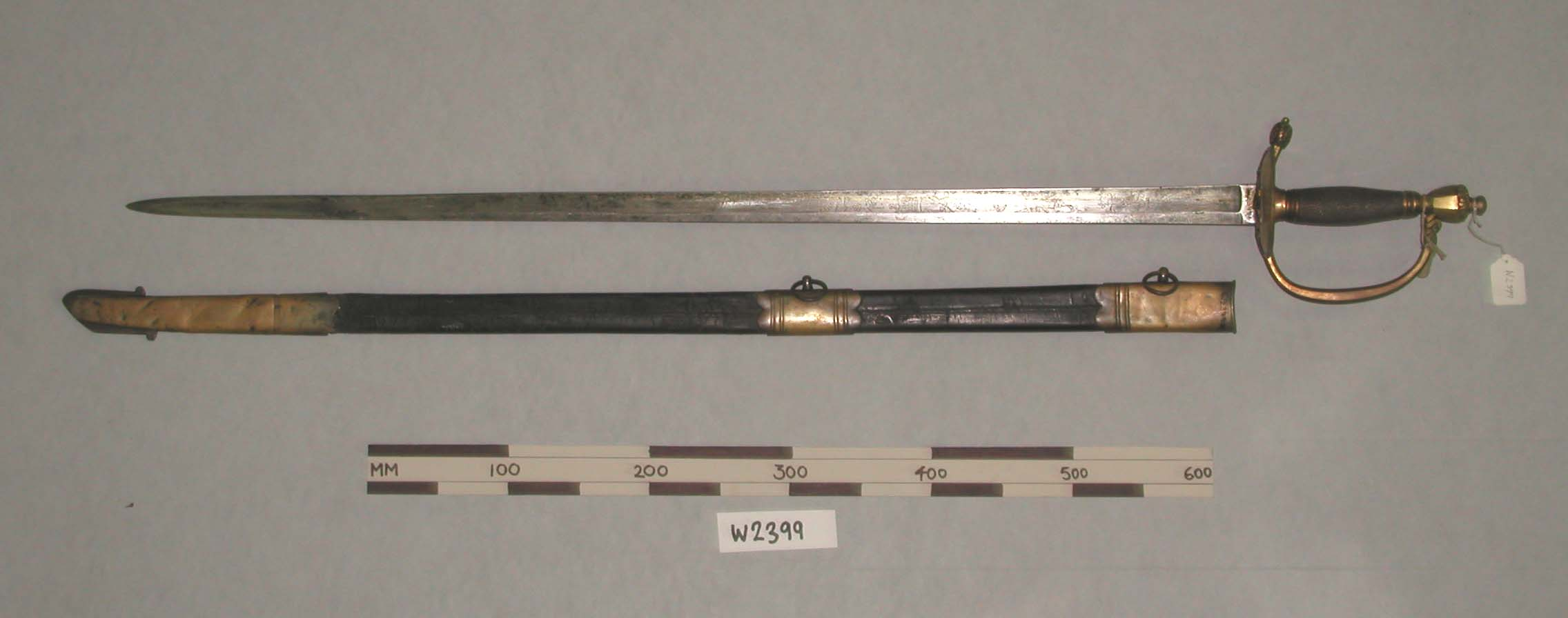 British Pattern 1796 Infantry Officers sword and scabbard sword with leather scabbard; blade- line engraved back Woollcup 23 Dea Kune; black leather scabbard with brass fittings